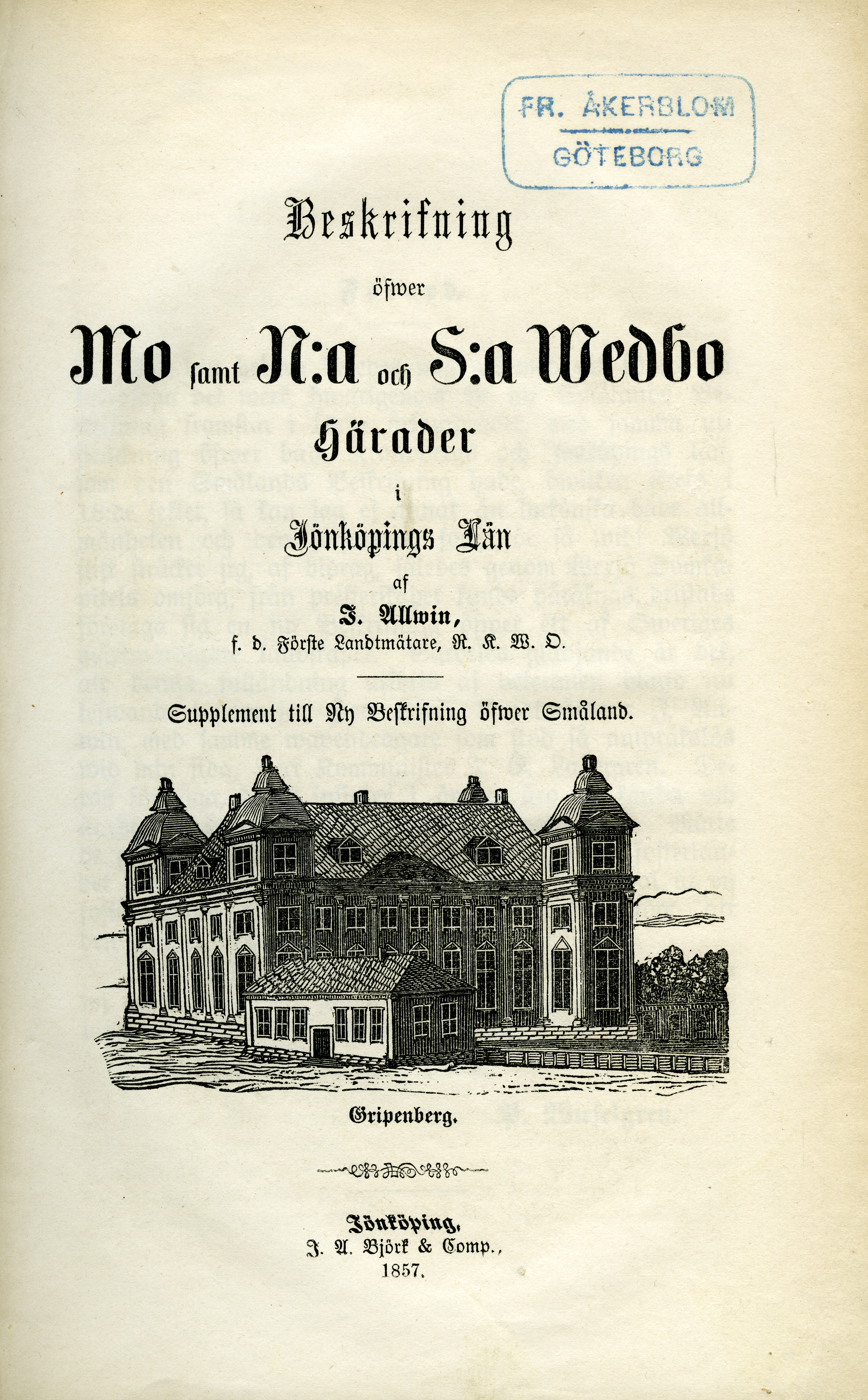 Title page of Beskrifning öfwer Mo samt N:a och S:a Wedbo härader i Jönköpings län (i.e. "Description of Mo hundred, Northen Vedbo hundred, and Southen Vedbo hundred in Jönköping county") (1857) by Jonas Allvin. Printed 1857 by J.A. Björk & Co. in Jönköping, Sweden.